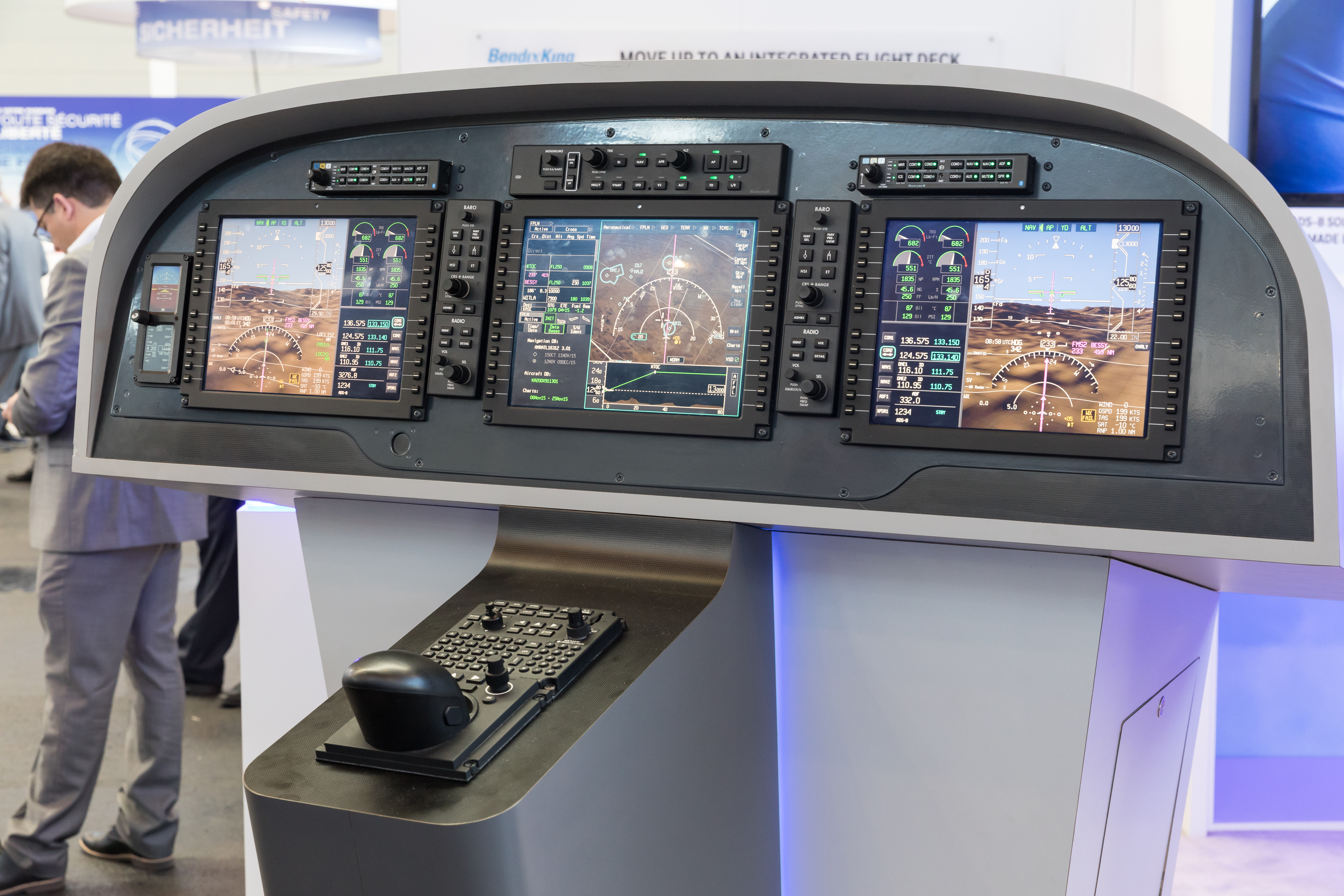 AERO Friedrichshafen 2018